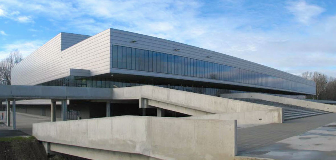 Sport Hall Varaždin